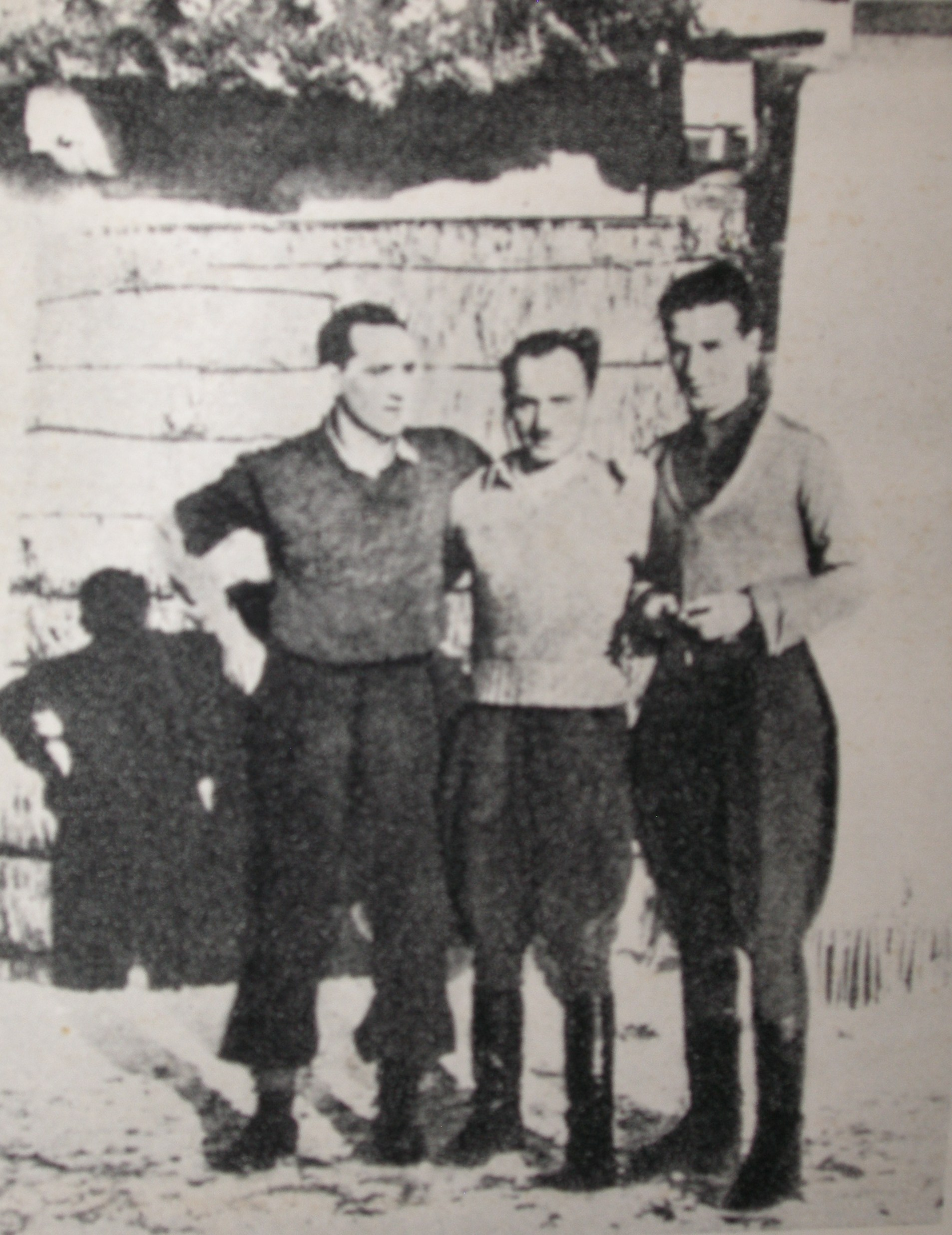 Dowódcy oddziału AK "Wiklina"